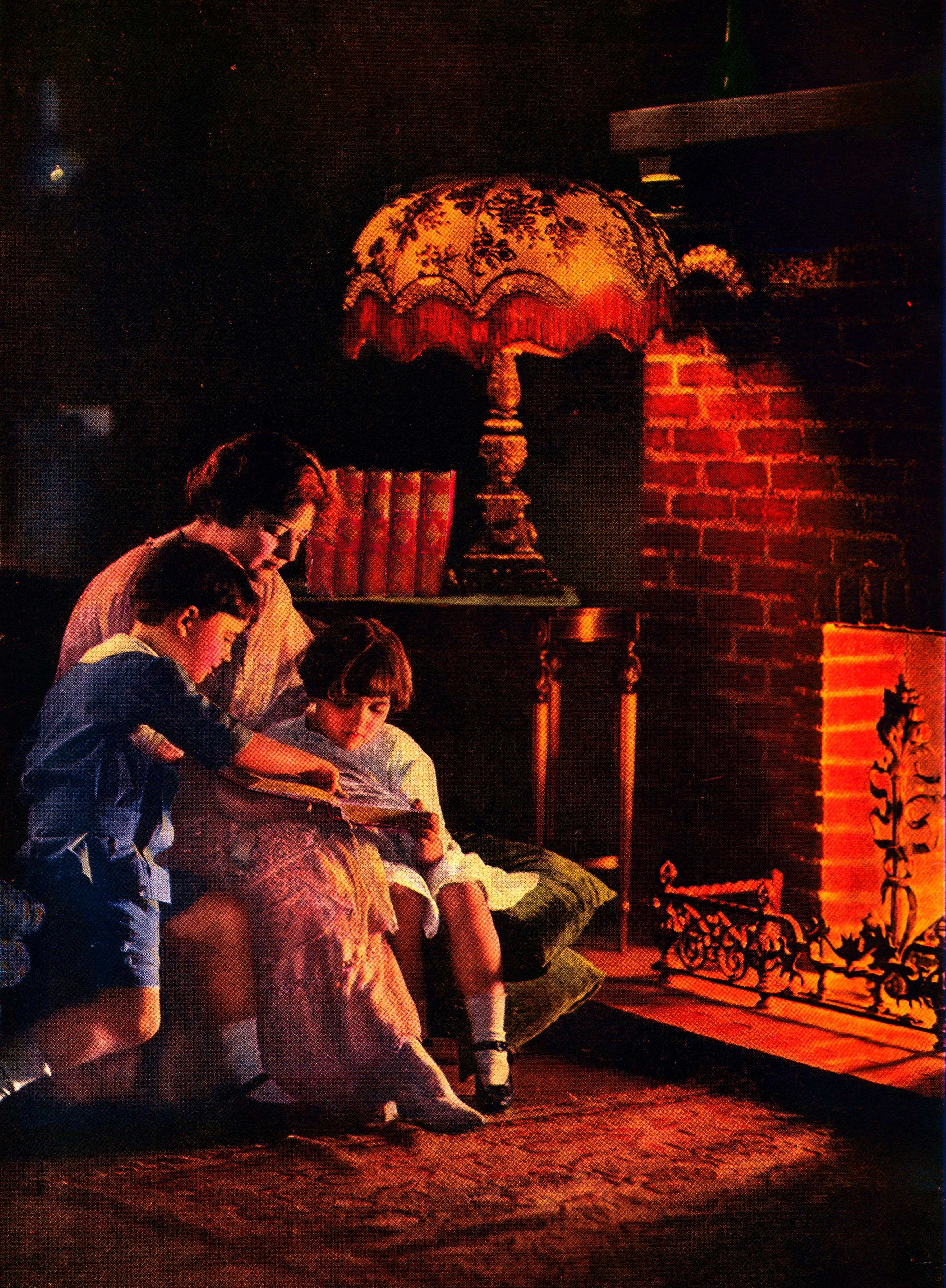 This is an image or page from The How and Why Library, a book first published in the United States in 1909. Location in book: Opposite the title page